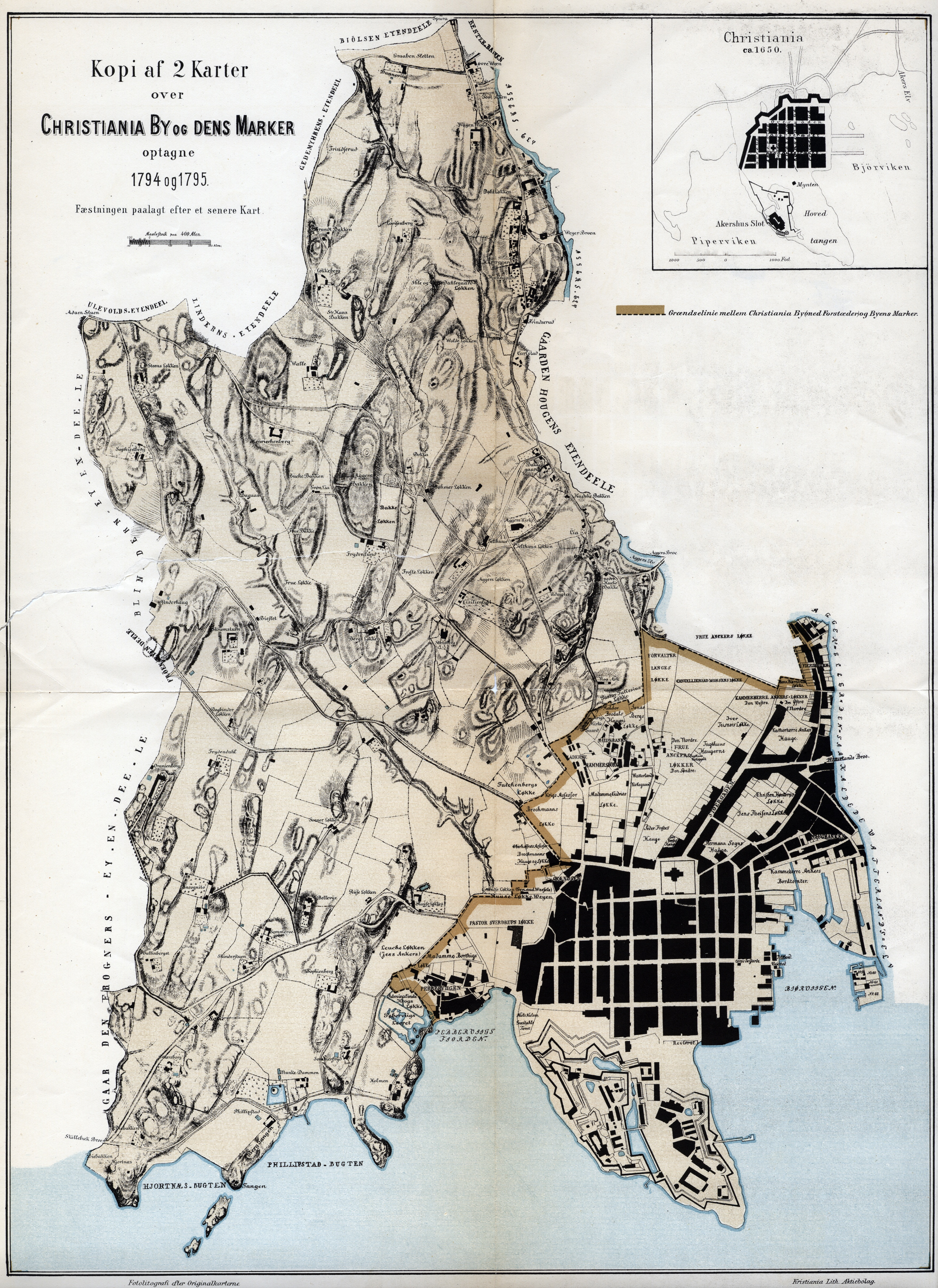 Map of Oslo, Norway, city map from 1794 and "bymarka" from 1795-1796. The survey was conducted after order by "Christiania magistrat og borgerrepresentasjonen". The Akershus Fortress is added later. Older inlay showing the city as it was in 1650.